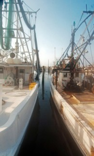 Fishing and shrimp boats on the Gulf of Mexico